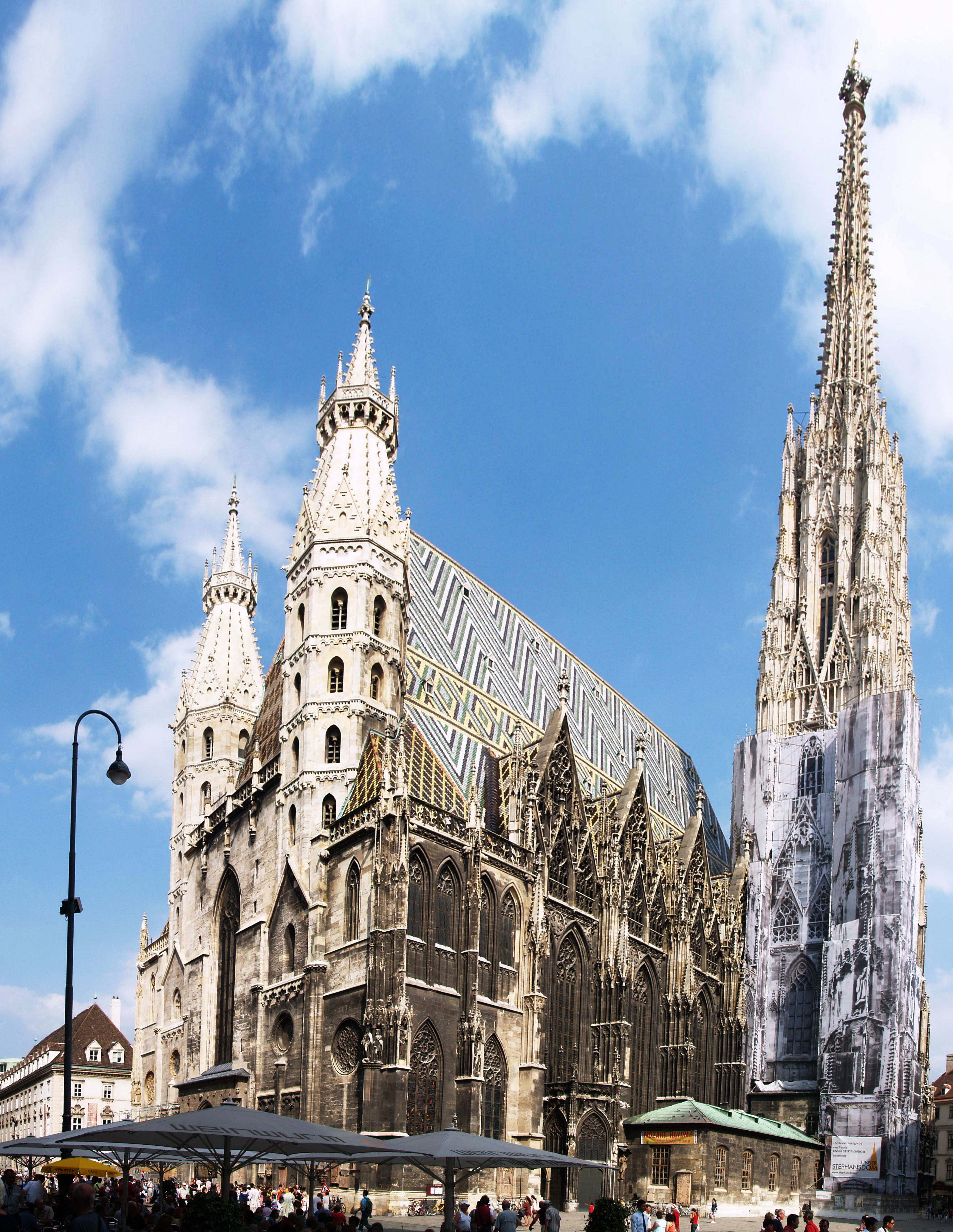 Stephansdom, Vienna.